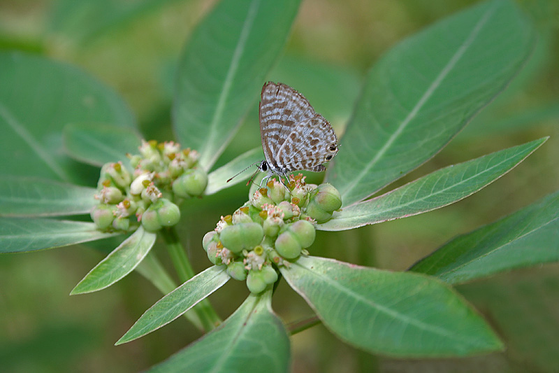 Painted Euphorbia Euphorbia heterophylla in Hyderabad , India.